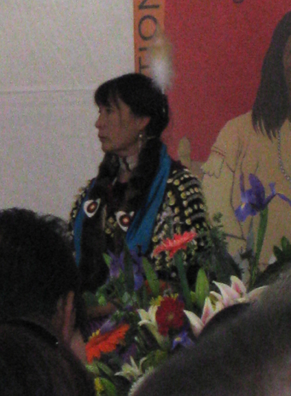 Charlene Teters, Spokane activist, writer, and educator